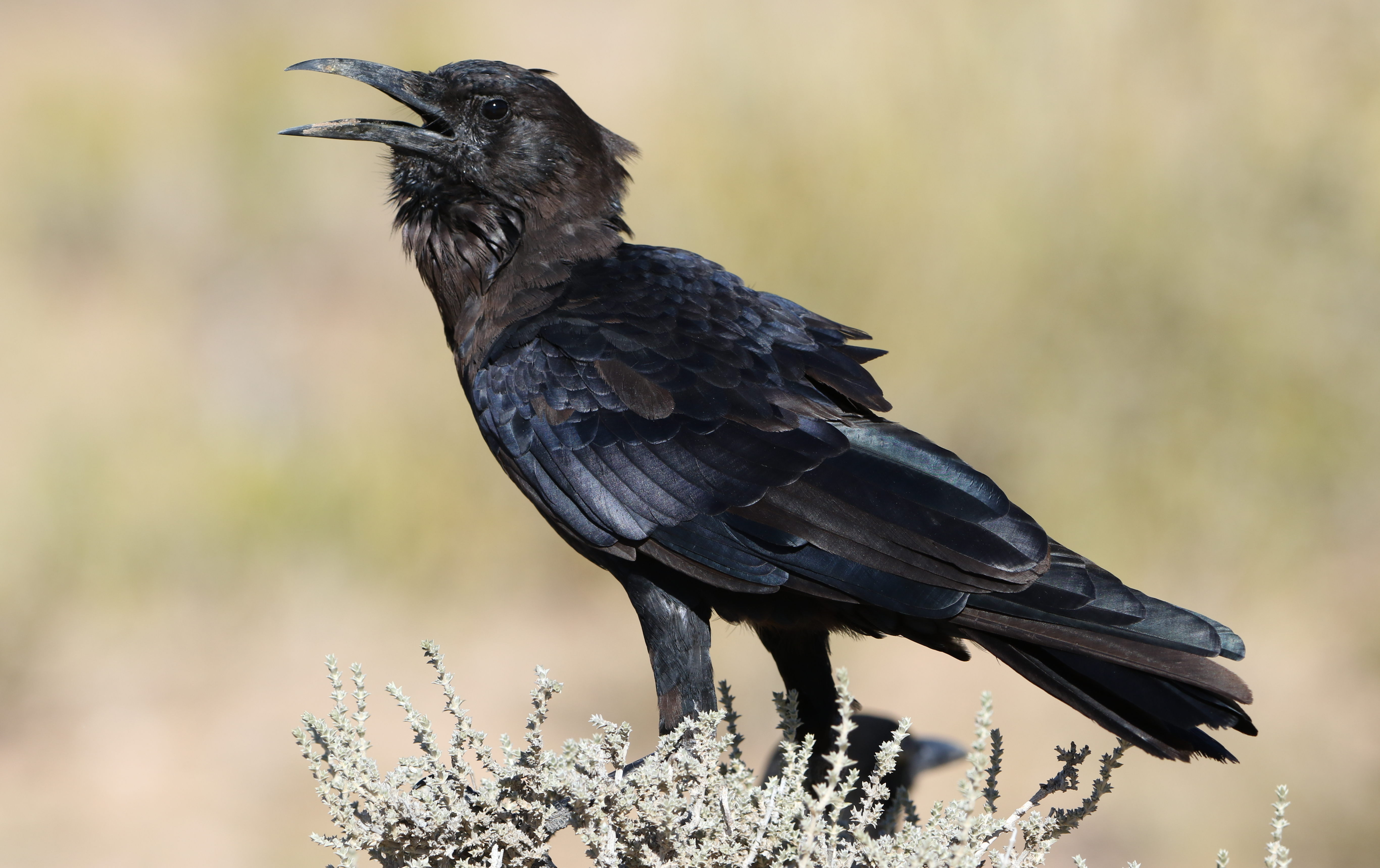 Cape crow, Corvus capensis, at Kgalagadi Transfrontier Park, Northern Cape, South Africa